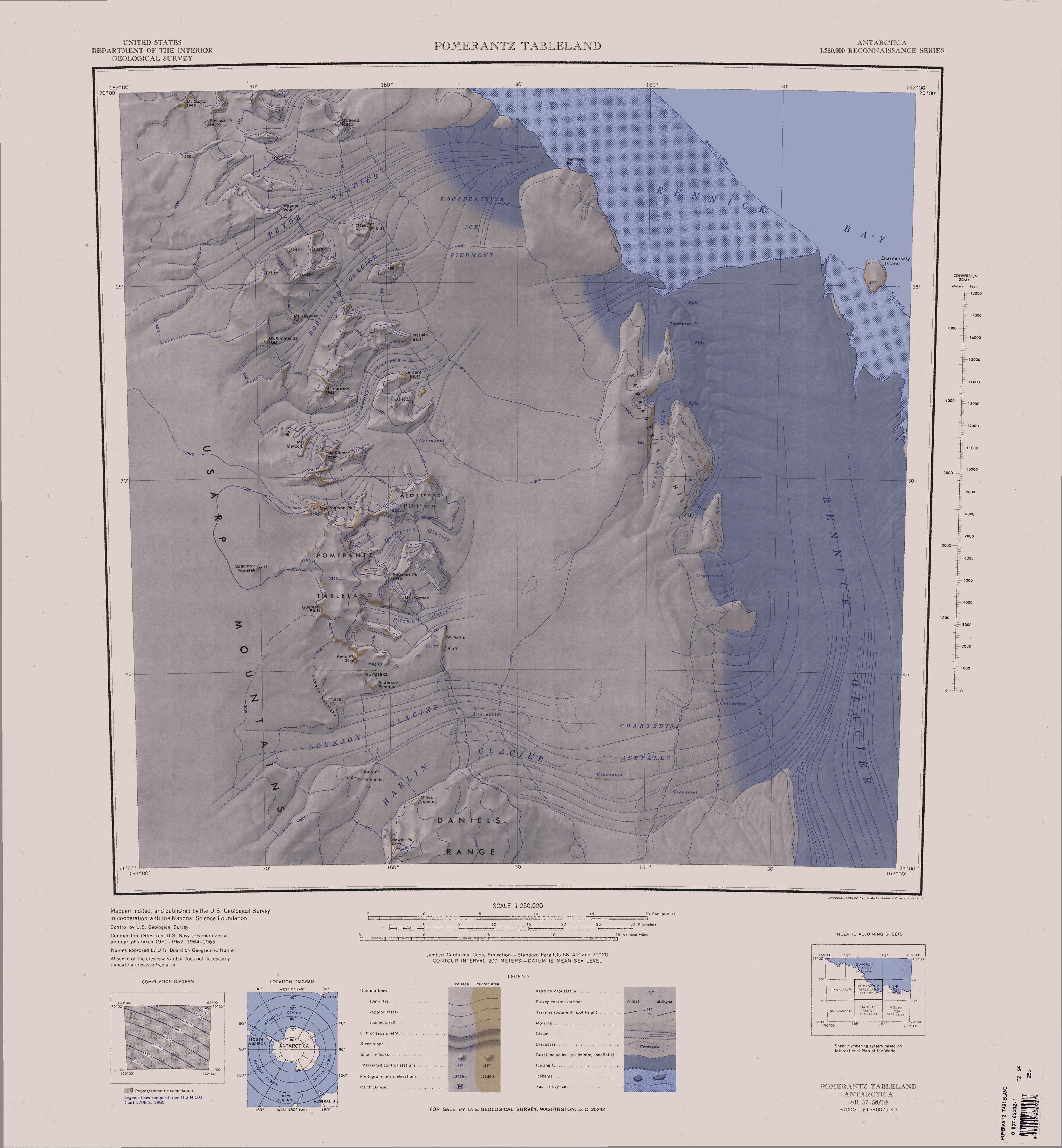 1:250,000-scale topographic reconnaissance map of the Pomerantz Tableland area from 159°-162°E to 70°-71°S in Antarctica, including parts of the Usarp Mountains and the Rennick Glacier. Mapped, edited and published by the U.S. Geological Survey in cooperation with the National Science Foundation.